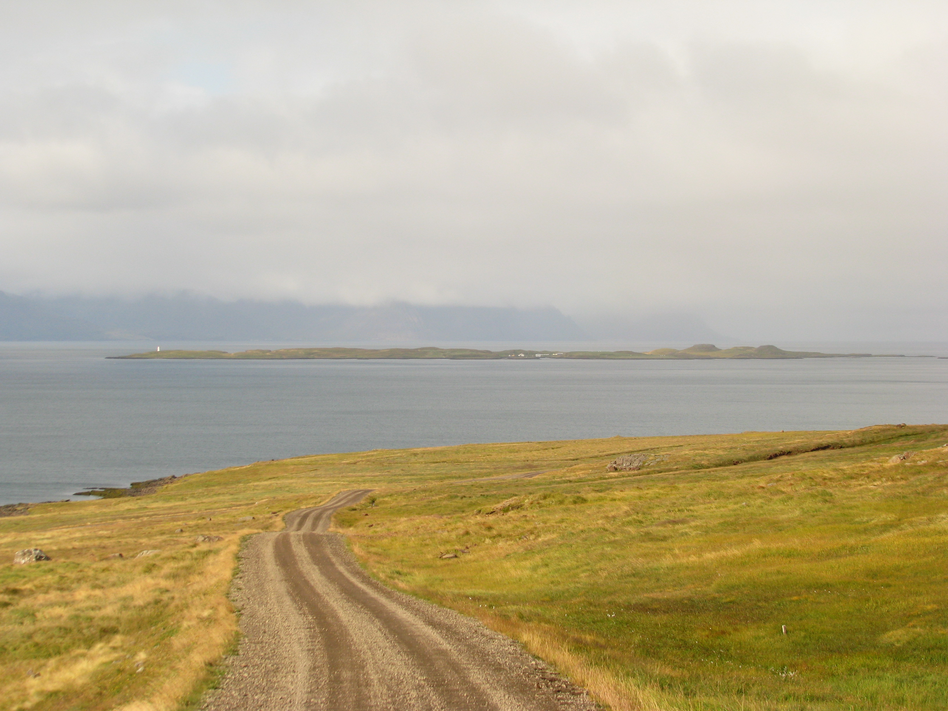 AEdey, an island of Iceland.